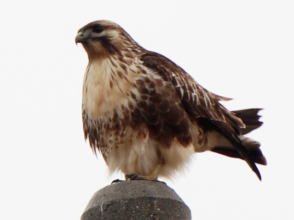 Buteo japonicus japonicus on telegraph pole in Japan.